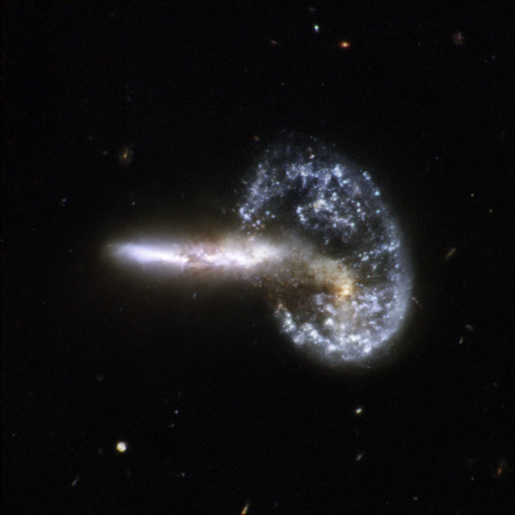 Arp 148 is the staggering aftermath of an encounter between two galaxies, resulting in a ring-shaped galaxy and a long-tailed companion. The collision between the two parent galaxies produced a shockwave effect that first drew matter into the center and then caused it to propagate outwards in a ring. The elongated companion perpendicular to the ring suggests that Arp 148 is a unique snapshot of an ongoing collision. Infrared observations reveal a strong obscuration region that appears as a dark dust lane across the nucleus in optical light. Arp 148 is nicknamed Mayall s object and is located in the constellation of Ursa Major, the Great Bear, approximately 500 million light-years away. This interacting pair of galaxies is included in Arp's catalog of peculiar galaxies as number 148. This image is part of a large collection of 59 images of merging galaxies taken by the Hubble Space Telescope and released on the occasion of its 18th anniversary on 24th April 2008. About the objectObject nameArp 148, VV 032, Mayall's Object, MCG+07-23-019Object descriptionInteracting GalaxiesPosition (J2000)11 03 53.95 +40 50 59.90ConstellationUrsa MajorDistance450 million light-years (150 million parsecs)About the dataData descriptionThe Hubble image was created using HST data from proposals 10592, 11091, and 6276: A. Evans (University of Virginia, Charlottesville/NRAO/Stony Brook University), K. Noll (STScI), and J. Westphal (Caltech)InstrumentWFPC2, ACS/WFCExposure date(s)October 9/10, 1995; November 20, 2005; and April 27-29, 2007Exposure time10.3 hoursFiltersF336W (U), F450W (B), F606W (V), and F814W (I)